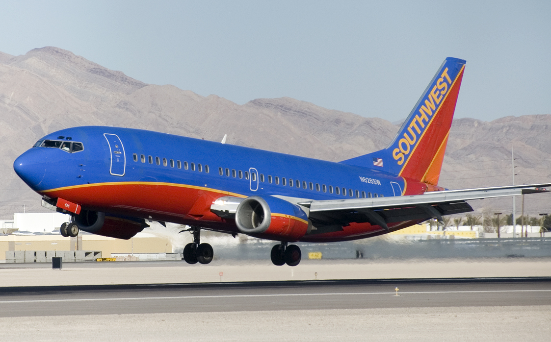 A Southwest Airlines Boeing 737-300 (N626SW) pictured before touching down on the runway at McCarran International Airport in Las Vegas, Nevada, United States. The aircraft is painted in Southwest's canyon blue primary livery.